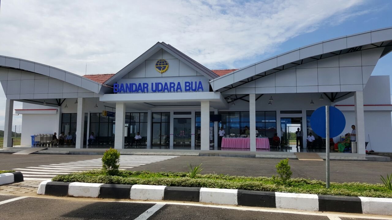 Bua Airport, Luwu, South Sulawesi, Celebes, Indonesia